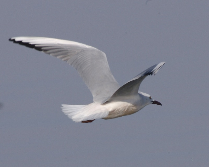 Slender-billed Gull, breeding plumage, Kahk, Al Fayyum, Egypt